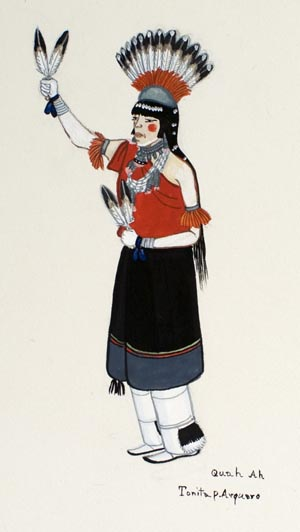 Tonita Peña Arquero “Quah Ah” (1893—1949), San Ildefonso and Cochita, New Mexico PM 2008.20.46